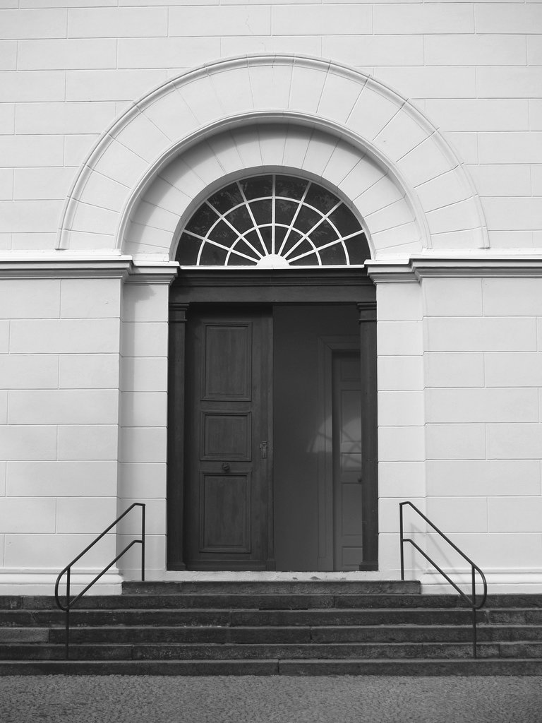 Entrance portal of the Straupitz village church, Brandenburg (Germany).